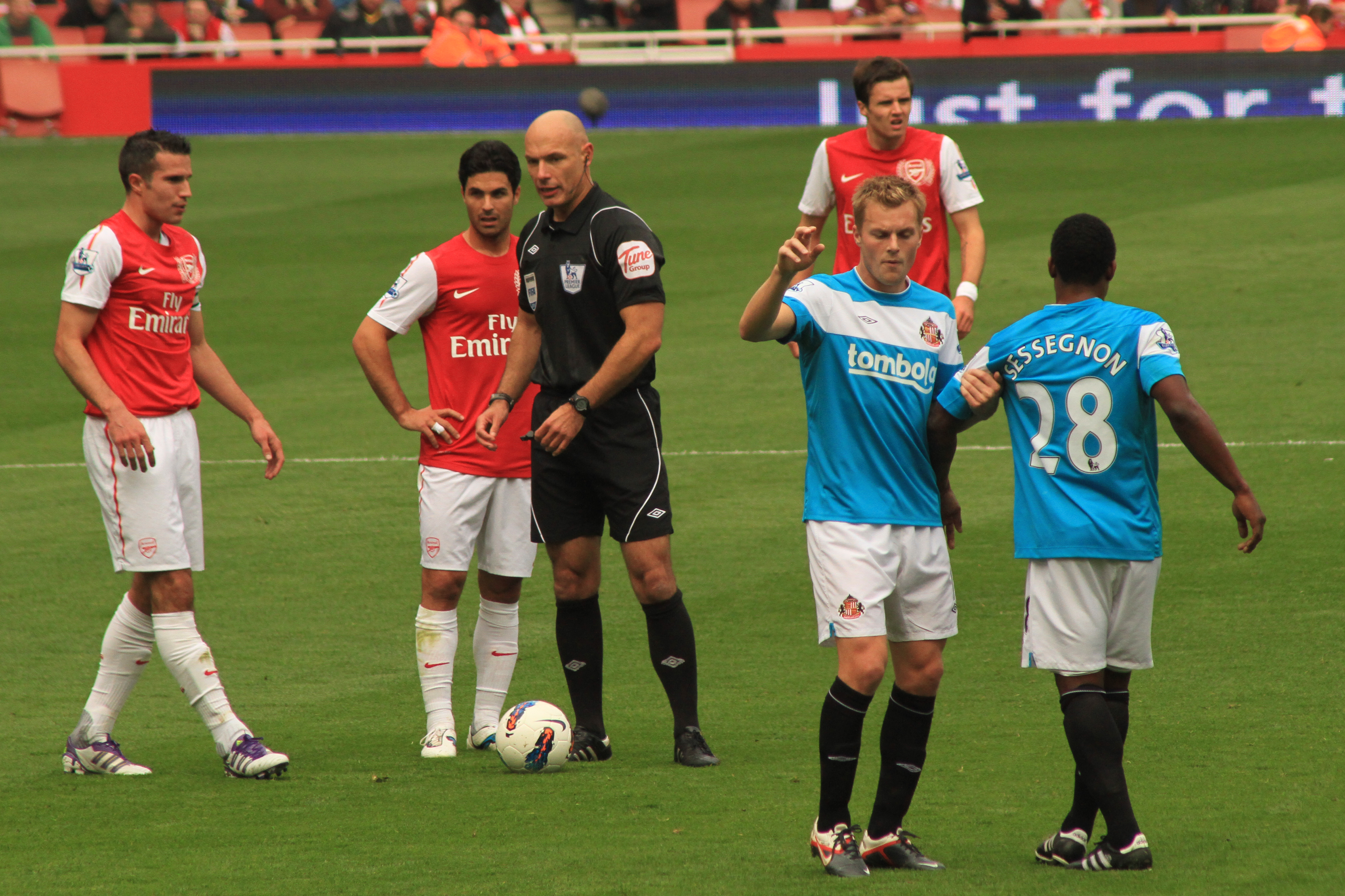 Robin van Persie and Mikel Arteta of Arsenal await referee Howard Webb's signal to take a free kick. Sebastian Larsson and Stéphane Sessègnon of Sunderland set up the wall.